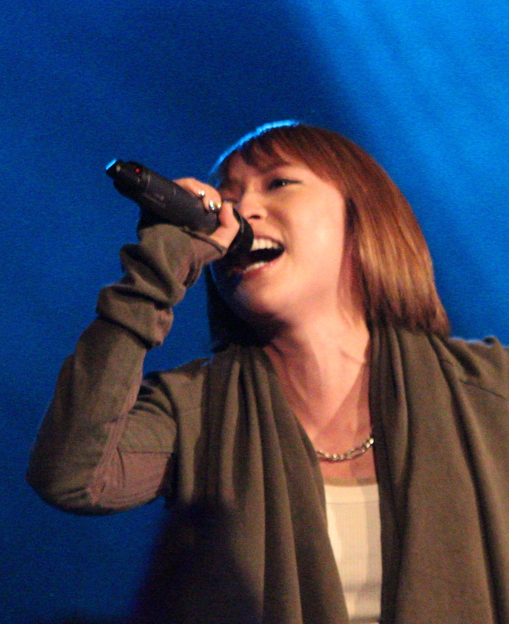 Japanese vocalist and anisong performer Eir Aoi performing at HYPER JAPAN 2015 summer festival.